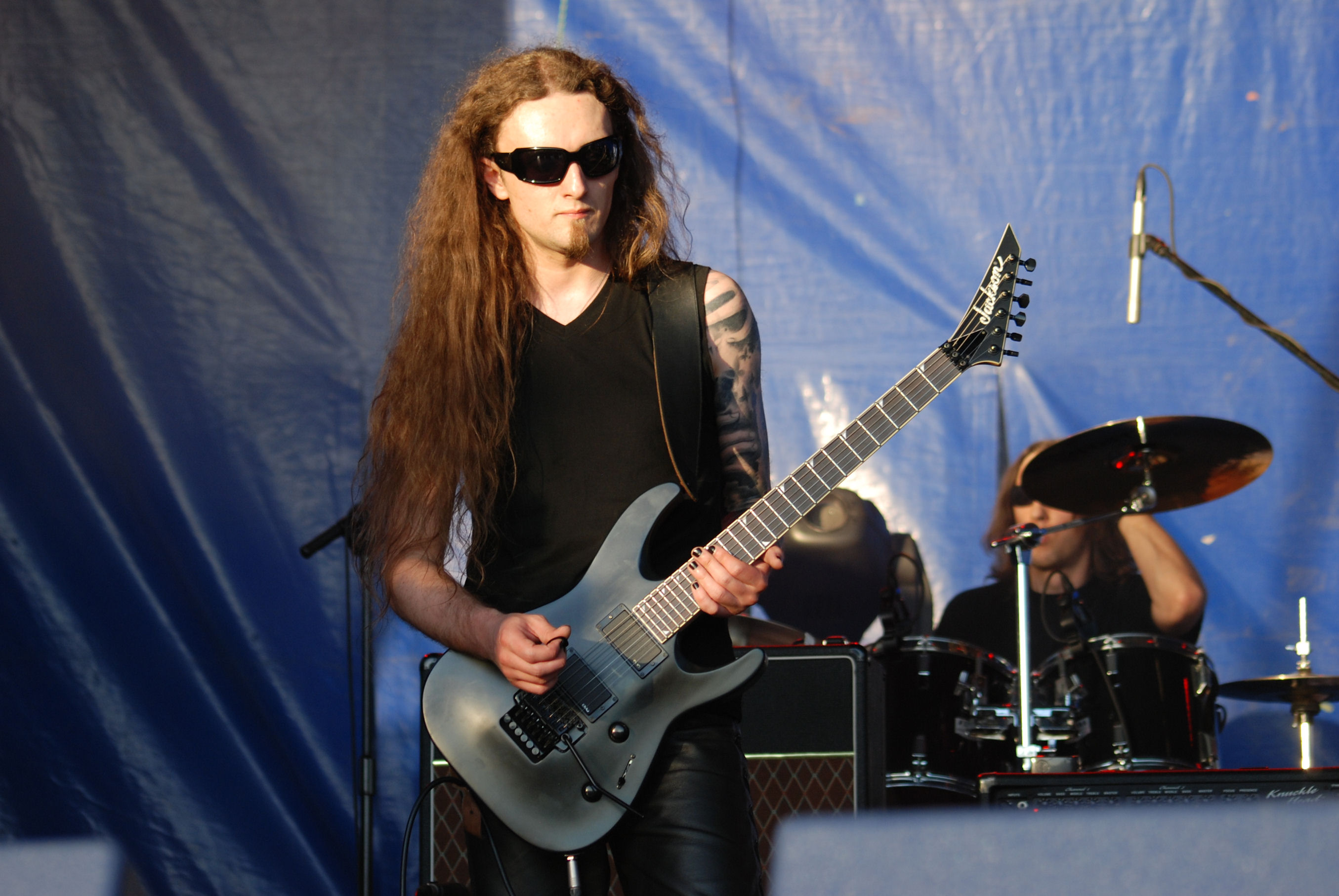 Closterkeller during Castle Party 2008